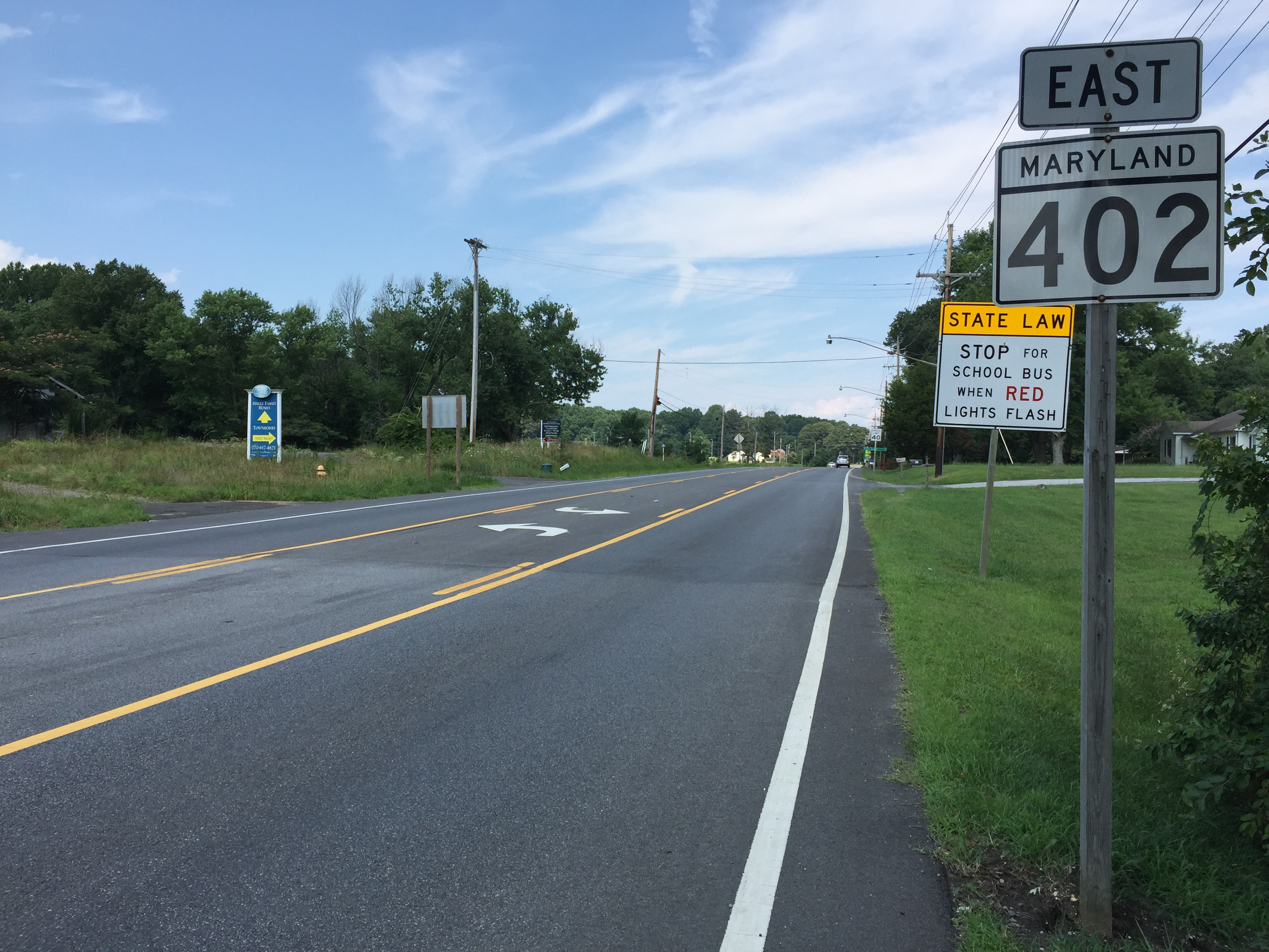 View east along Maryland State Route 402 (Dares Beach Road) just east of Armory Road in Prince Frederick, Calvert County, Maryland